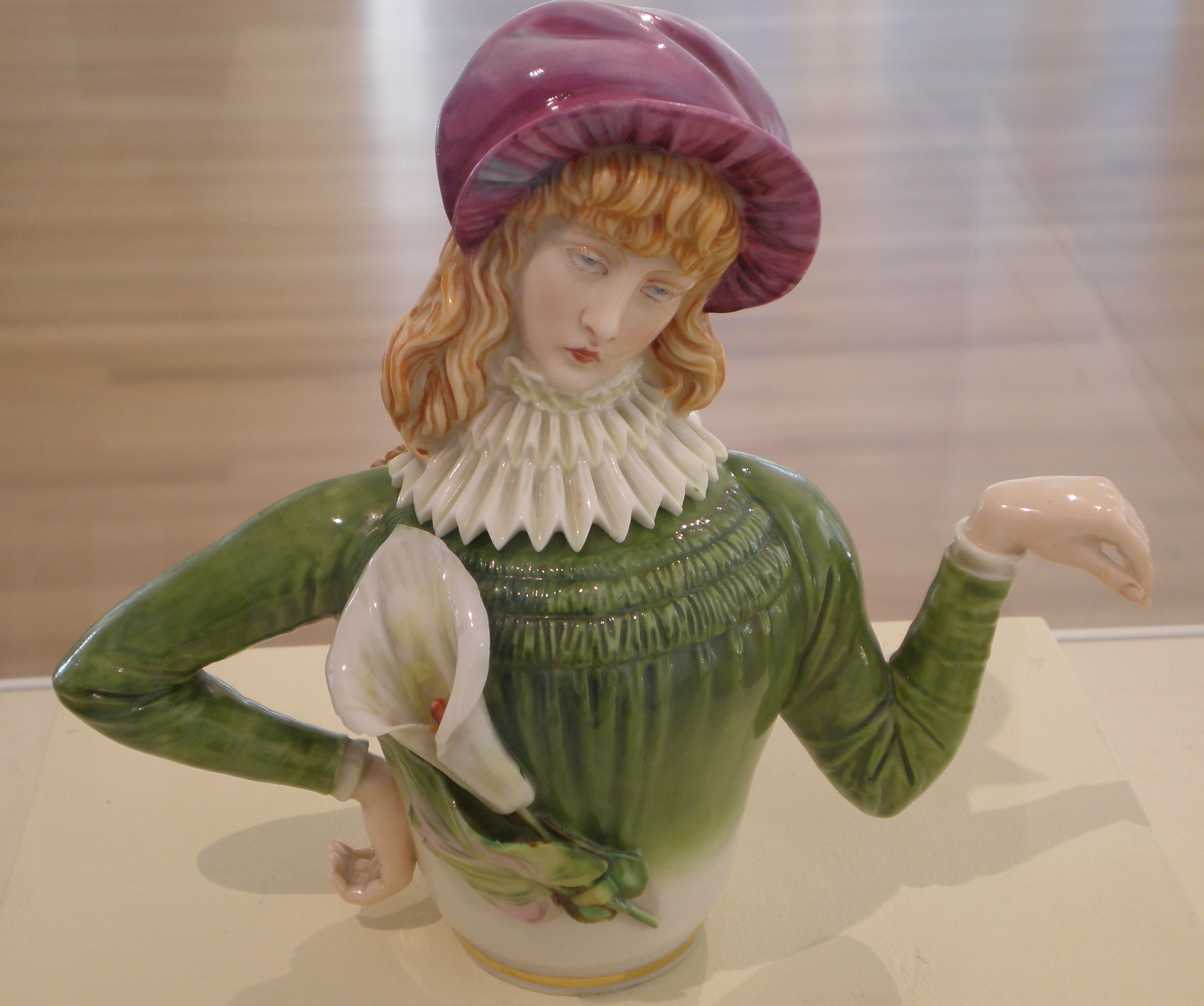 Female side of Aesthetic teapot designed by R.W. Binns and modeled by James Hadley, 1881. English, Royal Worcester Porcelain Works, mark for 1882. On display at the California Palace of the Legion of Honor in San Francisco. 2004.113a-b. The reverse side of the teapot has a male face and a sunflower instead of an Arum lily. The description on Flickr says: "it is reminiscient of classic busts of Janus in these opposing features. The Museum provided the following information: 'Inscribed on the underside: "Fearful consequences through the laws of Natural Selection and Evolution of living up to one's Teapot.' This teapot is a satire on the utterances of... Darwinism, and the Aesthetic movement, which swept England and America in the 1870s and 1880s.